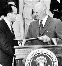 Photo of Dr. Jonas Salk receiving a Gold Medal from President Eisenhower